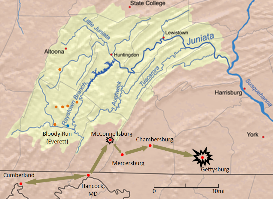 Movements of General Imboden's Confederate cavalry are shown in brown, Union General Milroy's position at Bloody Run is shown in blue, and makeshift forts by Militia under the command of Col. Higgins are shown in orange. The yellow region depicts the extents of Juniata Iron operations.